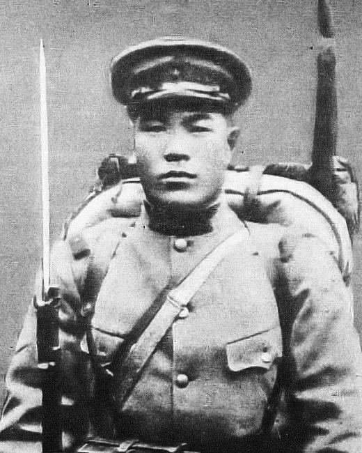 Susumu Kitagawa(Three Human Bombs)